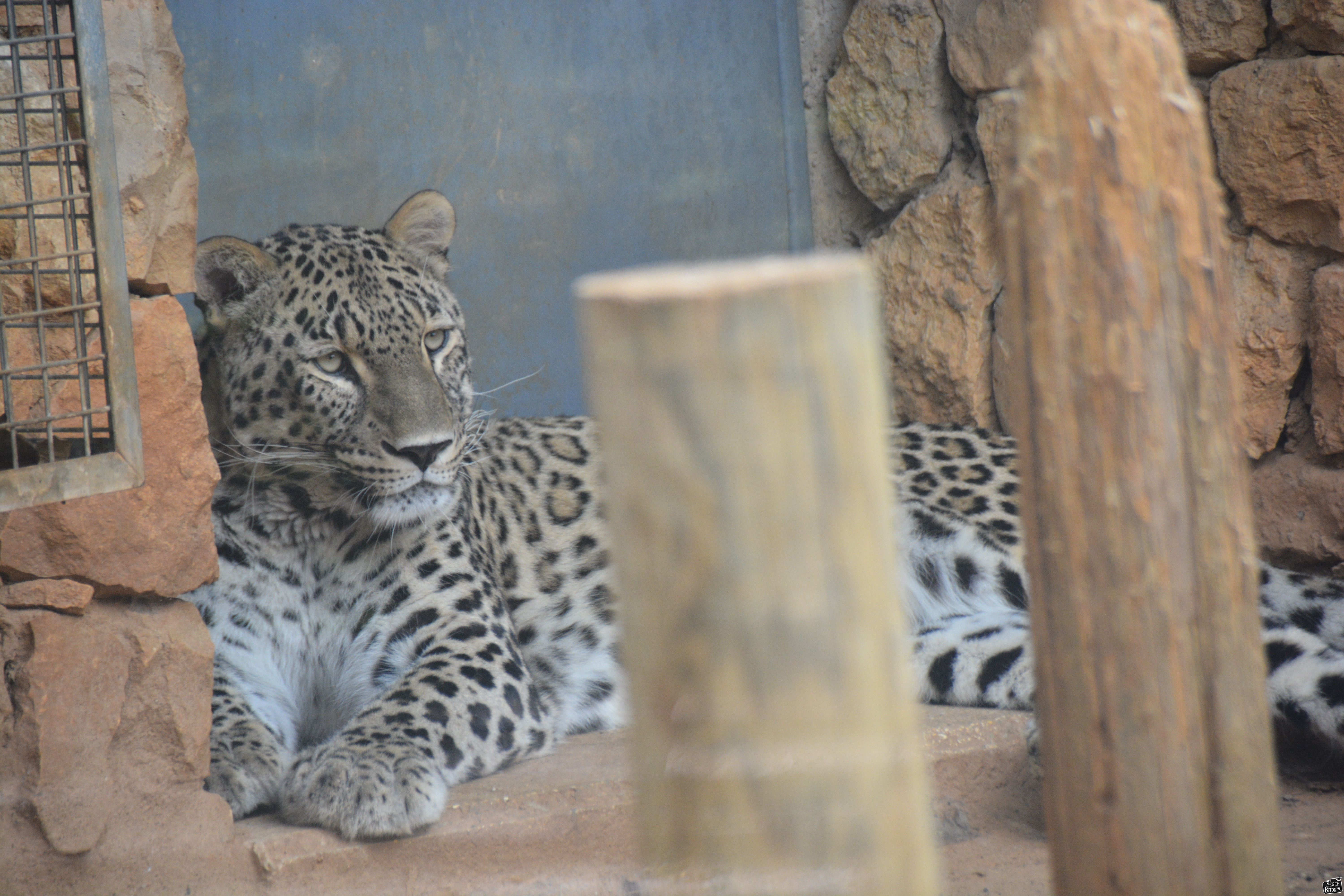 Biblical Zoo in Jerusalem